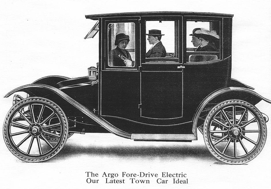 1912 Argo Brougham, made by the Argo Electric Vehicle Company URL: Image courtesy W. Zablosky